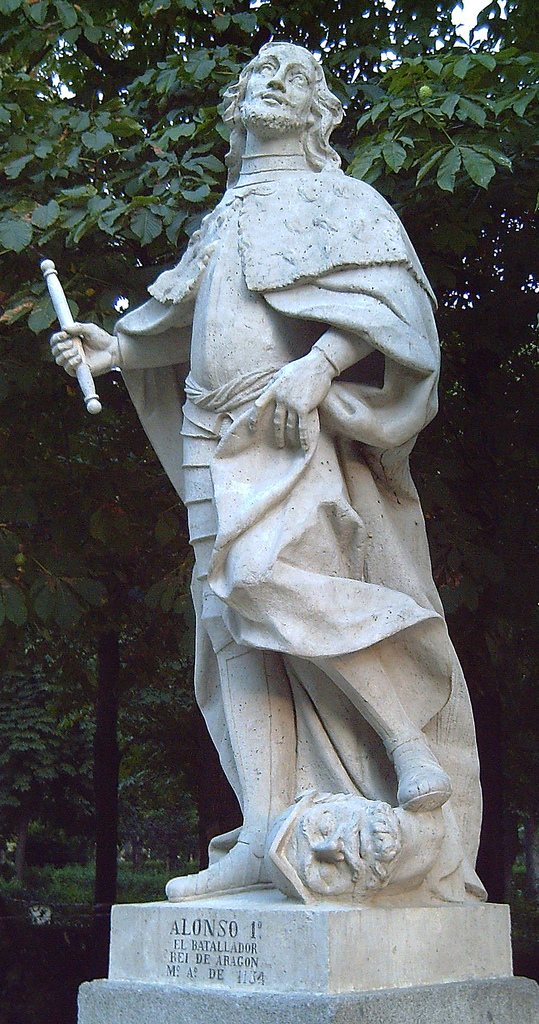 Statue of Alfonso I of Aragon, the Battler (1073–1134), at the Paseo de la Argentina (a walk) in the Retiro Park (Jardines del Buen Retiro), in Madrid (Spain). Sculpted in white stone by Domingo Martínez between 1750 and 1753.